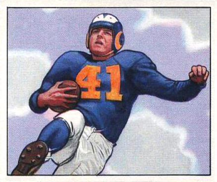 American football player Glenn Davis of the Los Angeles Rams depicted on a 1950 Bowman Gum football card